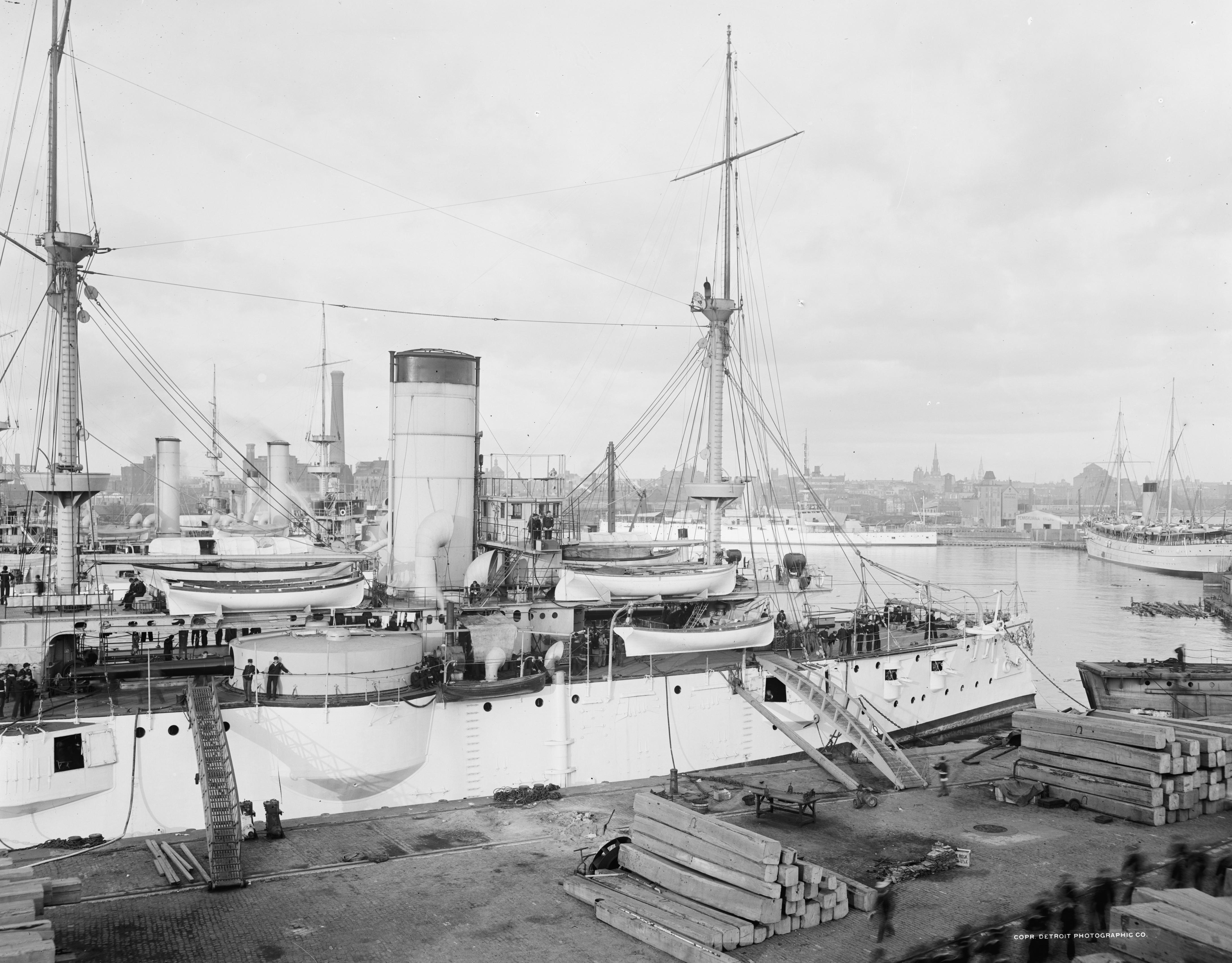 USS Texas